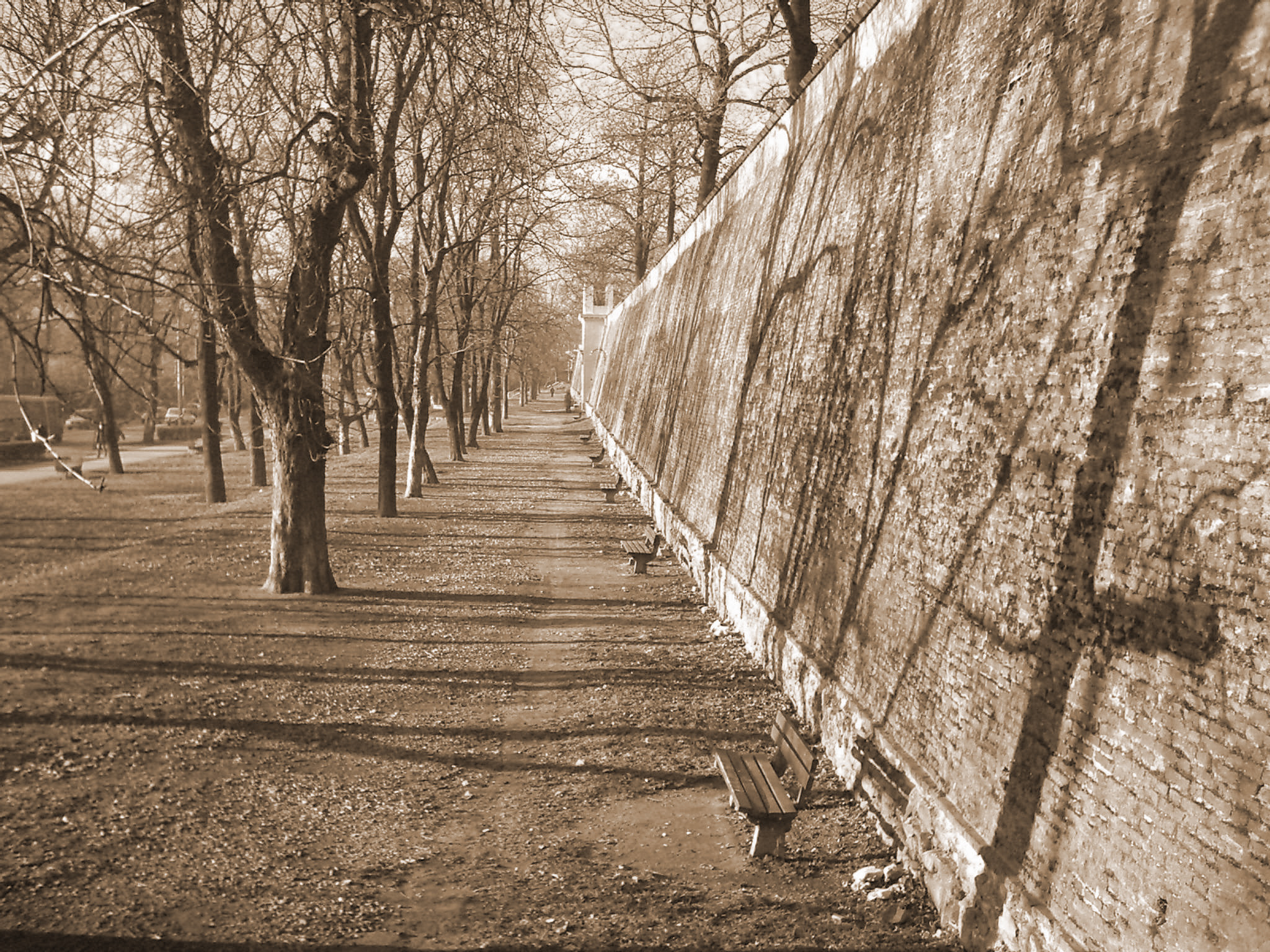 Fortified wall, part of Sibiu's medieval third line of defense